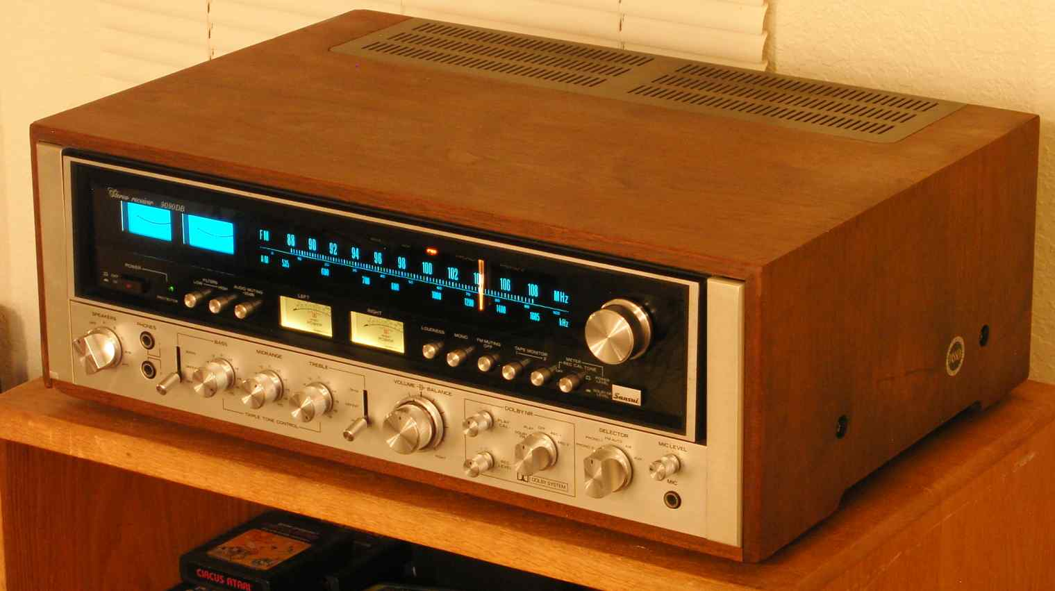 Sansui 9090DB amplifier. Photo taken by Aaronbrick|Aaron Brick, August 16, 2004. (del) (cur) 04:42, 30 January 2005 . . Aaronbrick (Talk) . . 1519x851 (67,176 bytes) (Sansui 9090DB amplifier. Photo taken by Aaron Brick, August 16, 2004.)